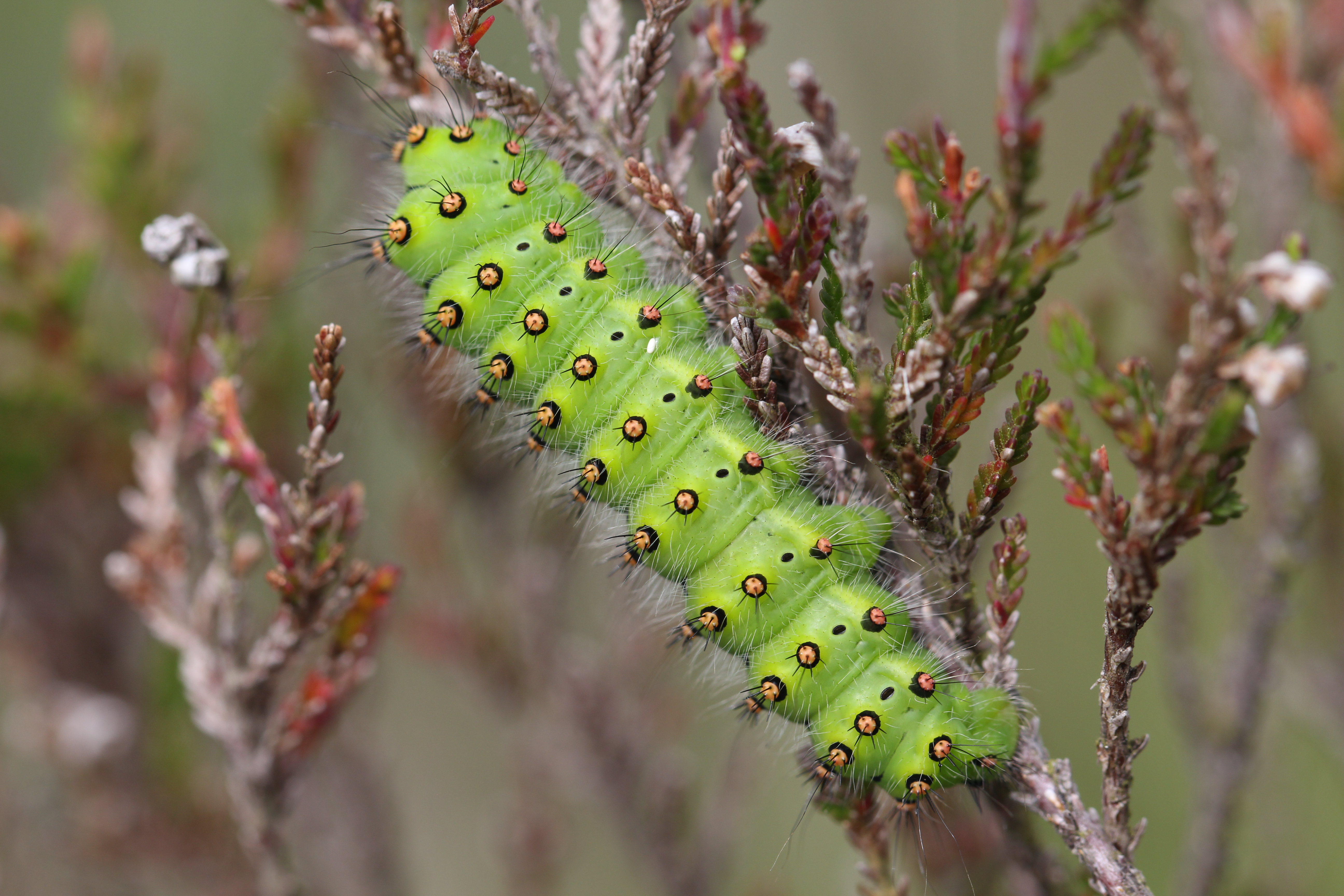 I've never seen the adult but the larva is pretty impressive. Saturnia pavonia on Calluna vulgaris.